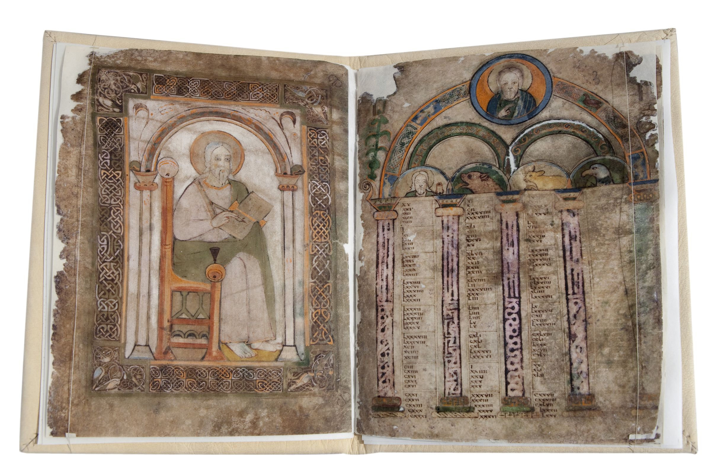 Codex Eyckensis. Dubble folio from the Codex A.